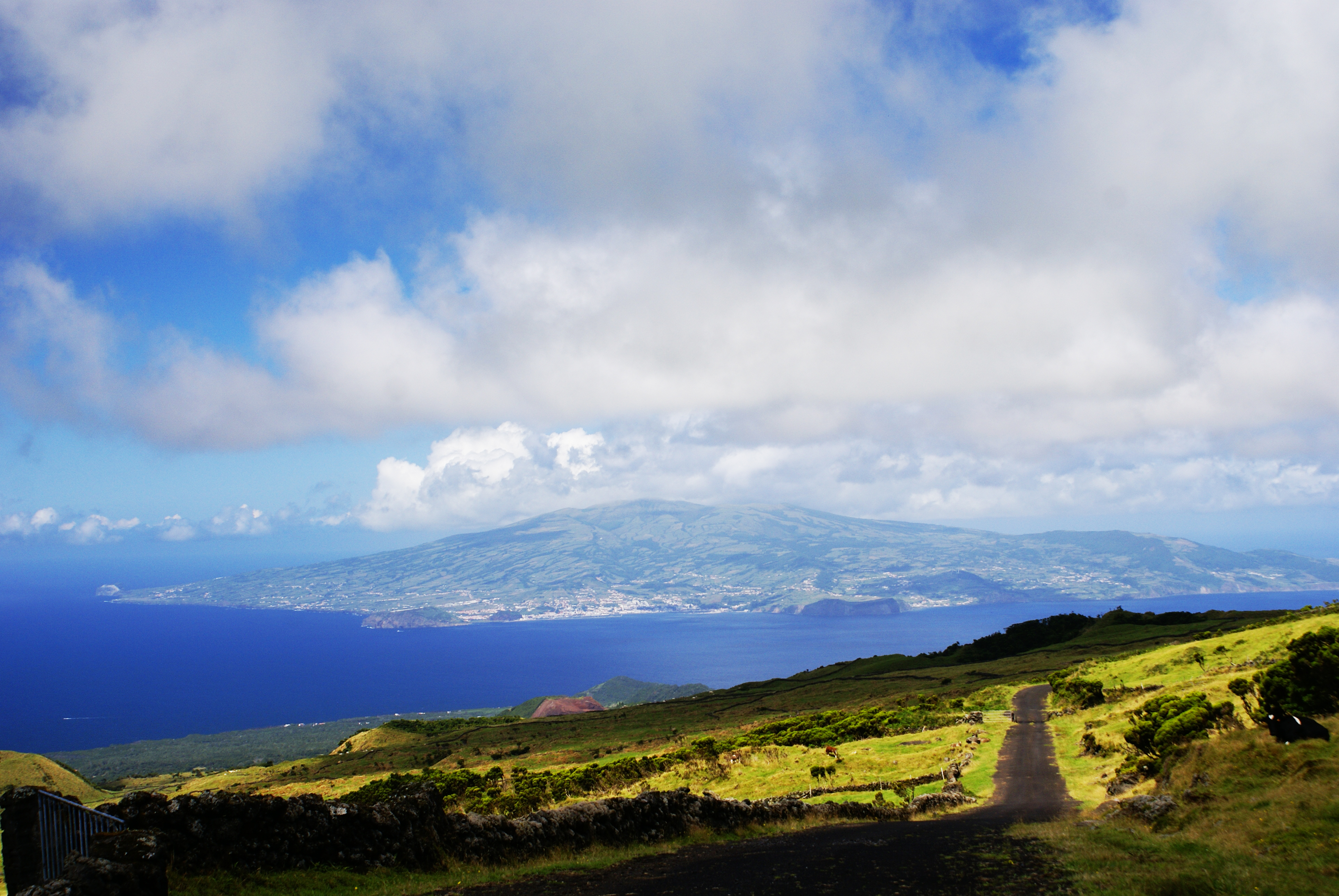 Interior da ilha do Pico, a ilha do Faial do outro lado do mar, terra verde, Açores, Portugal